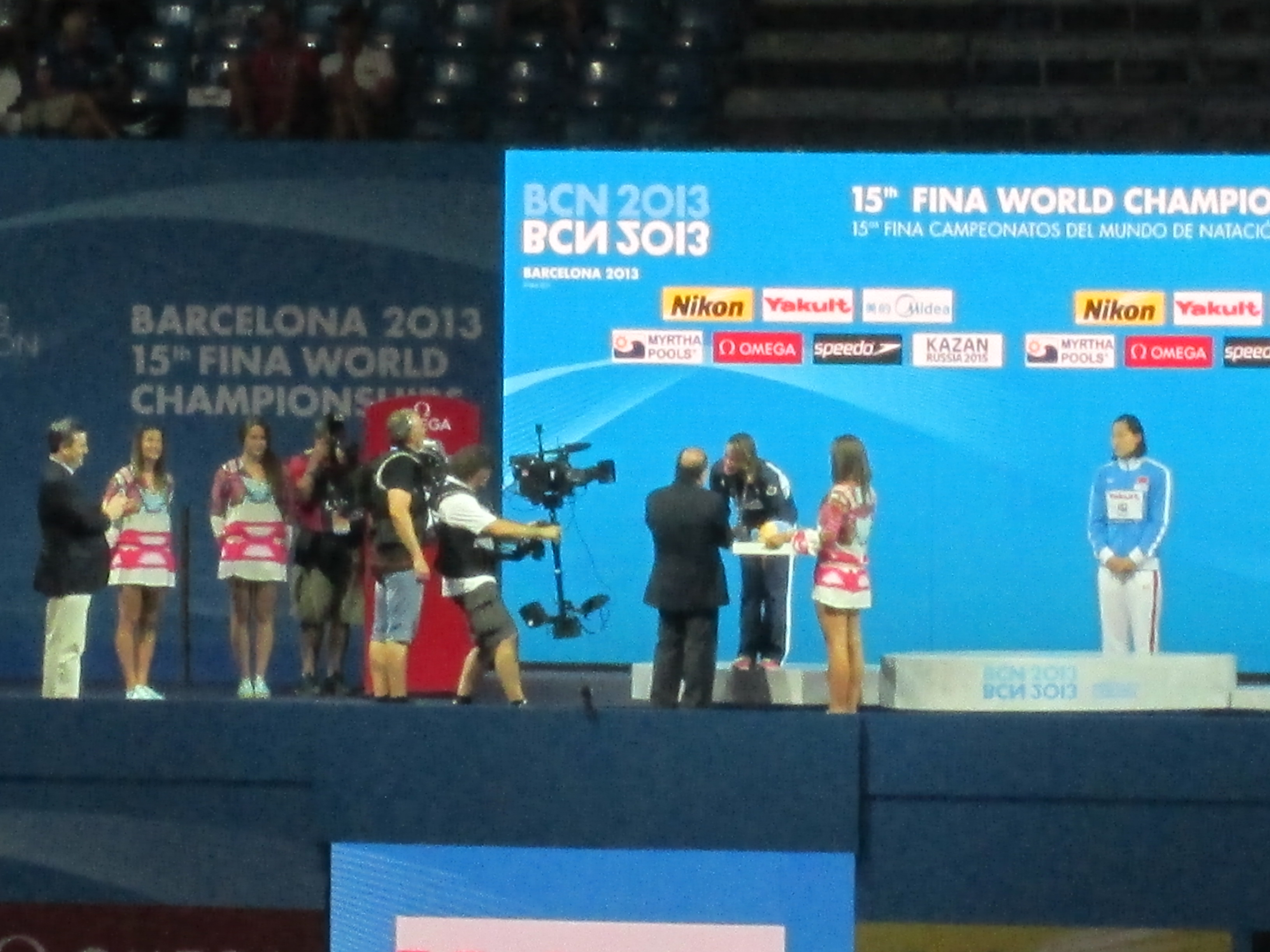 Mireia Belmonte medalla de plata en el Mundial de natacion de Barcelona 2013.